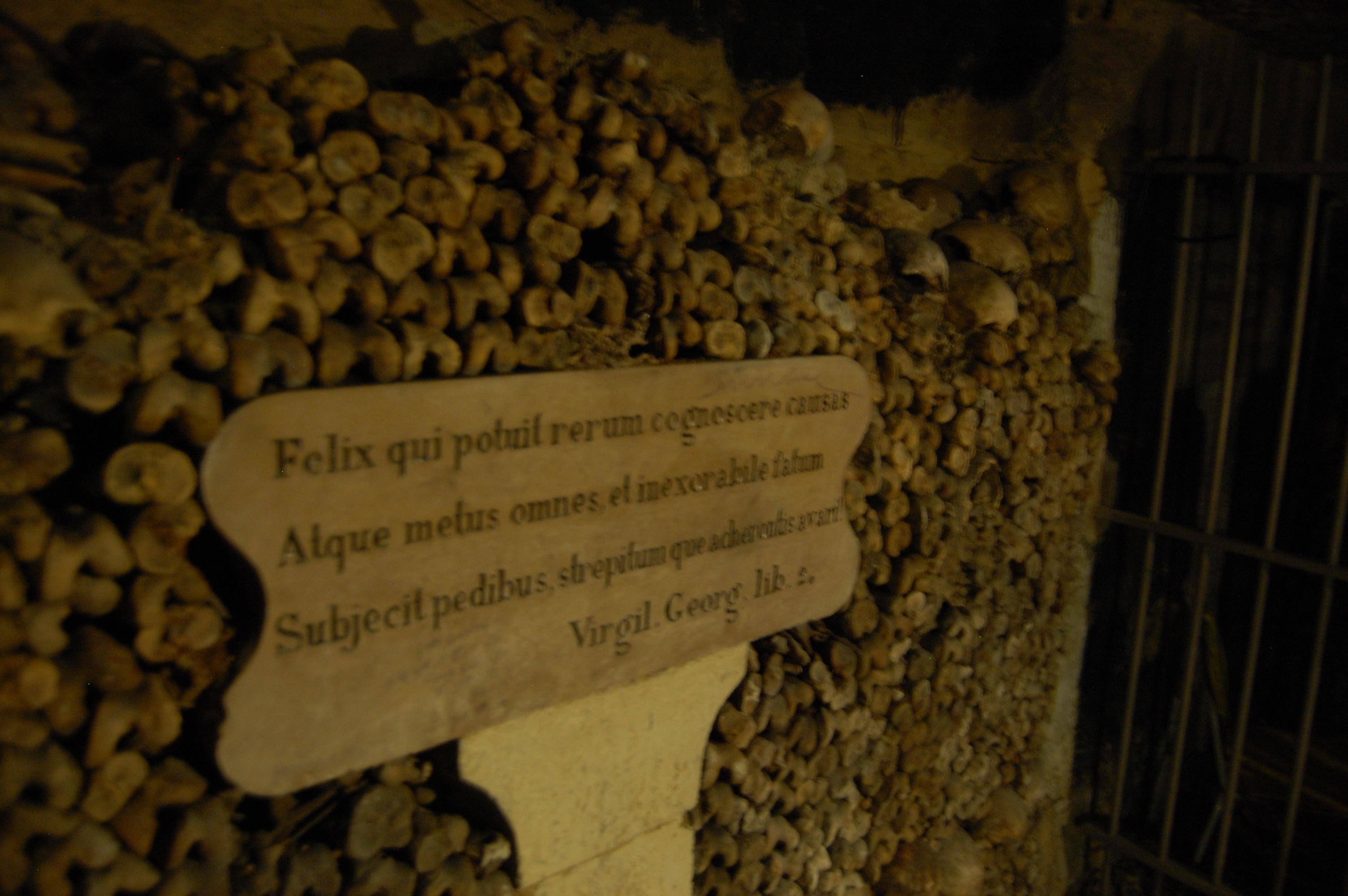 Virgil's quote: "Felix, qui potuit rerum cognoscere causas."